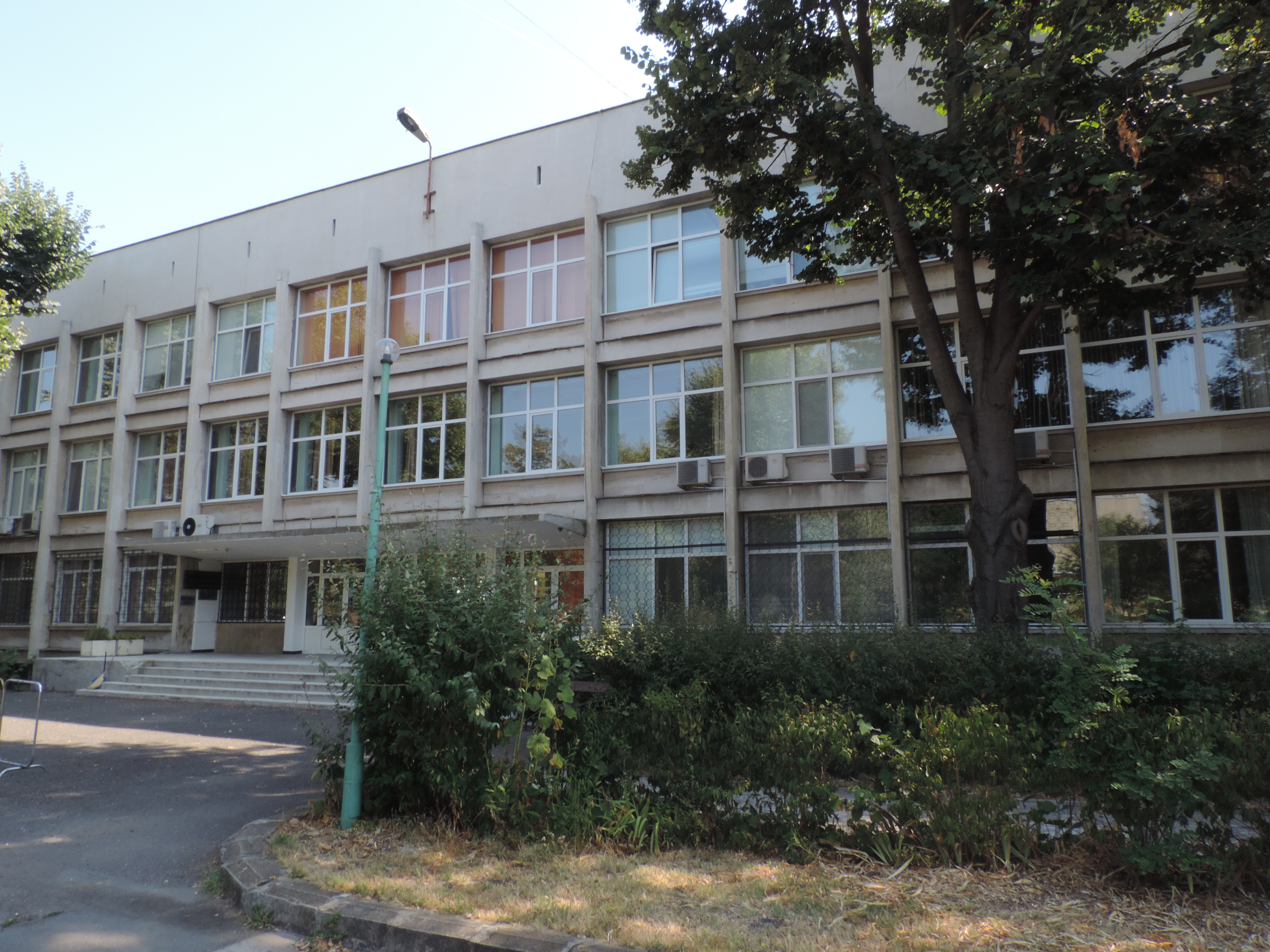 "Professor Asen Zlatarov" University, Burgas. Bulgaria